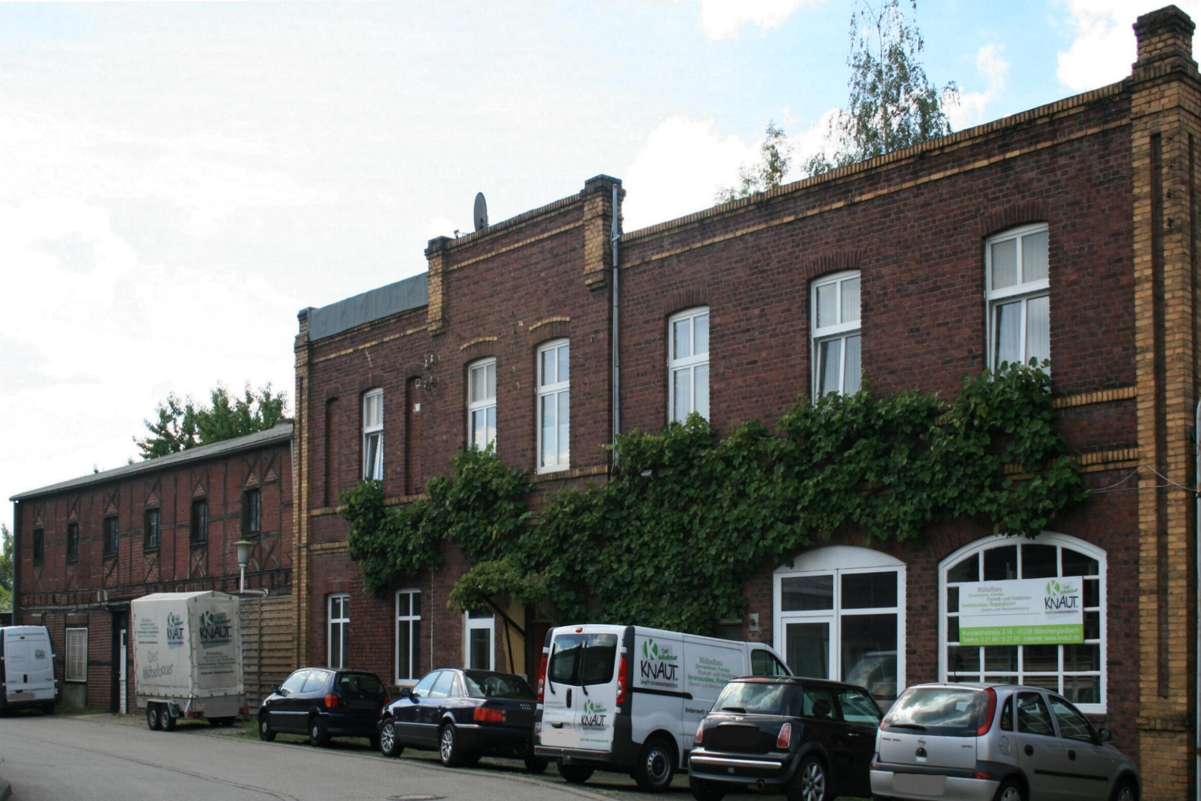 Cultural heritage monument No. K 041 in Mönchengladbach